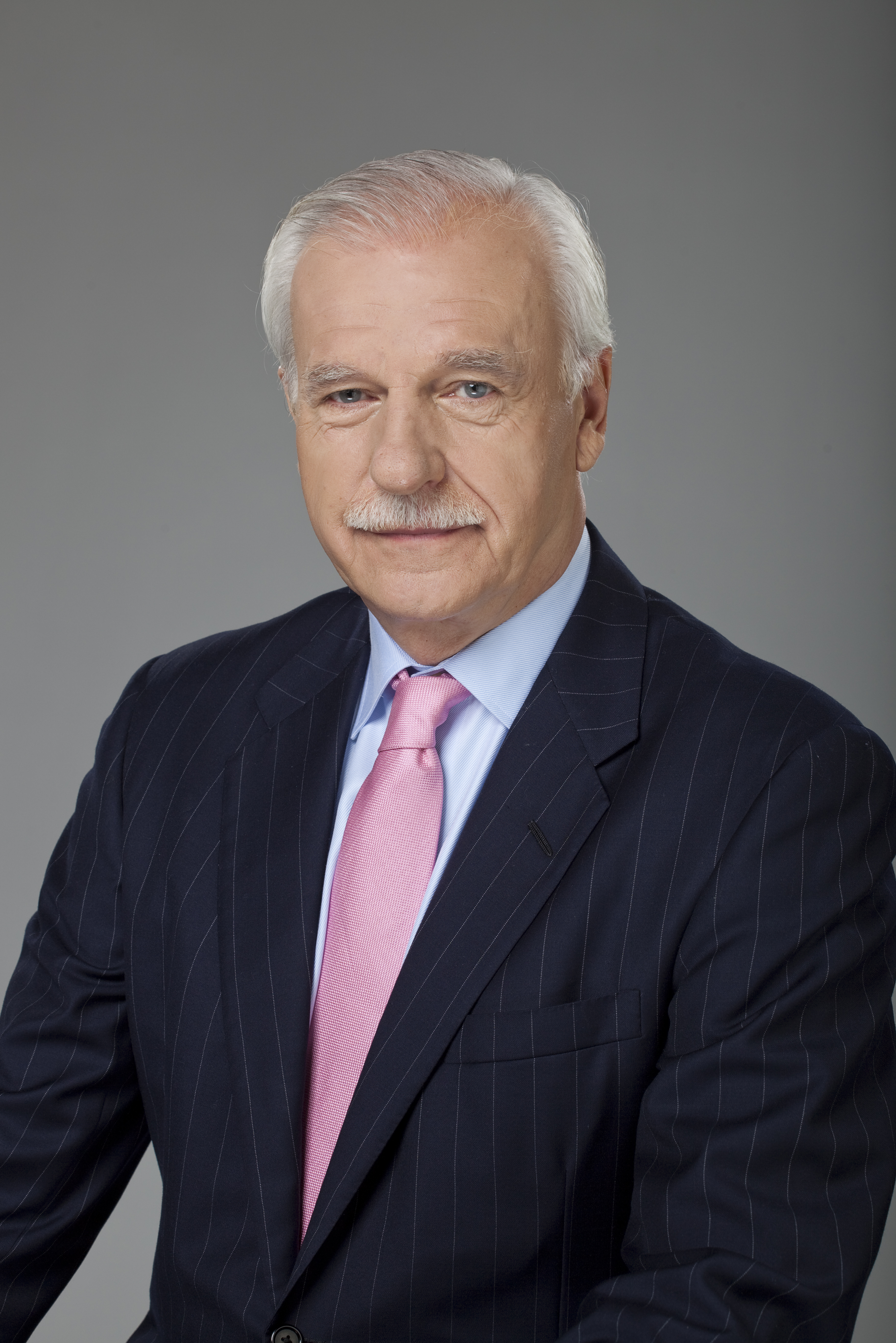 Andrzej Olechowski a politician, economist, candidate for the President of the Republic of Poland in 2000 and 2010